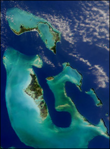 Bahamas MODIS